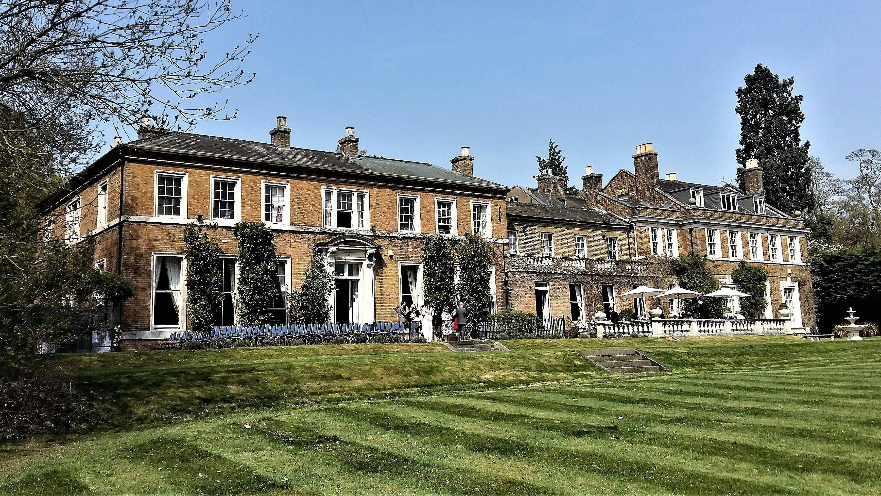 High Elms Manor, near Garston, Hertfordshire